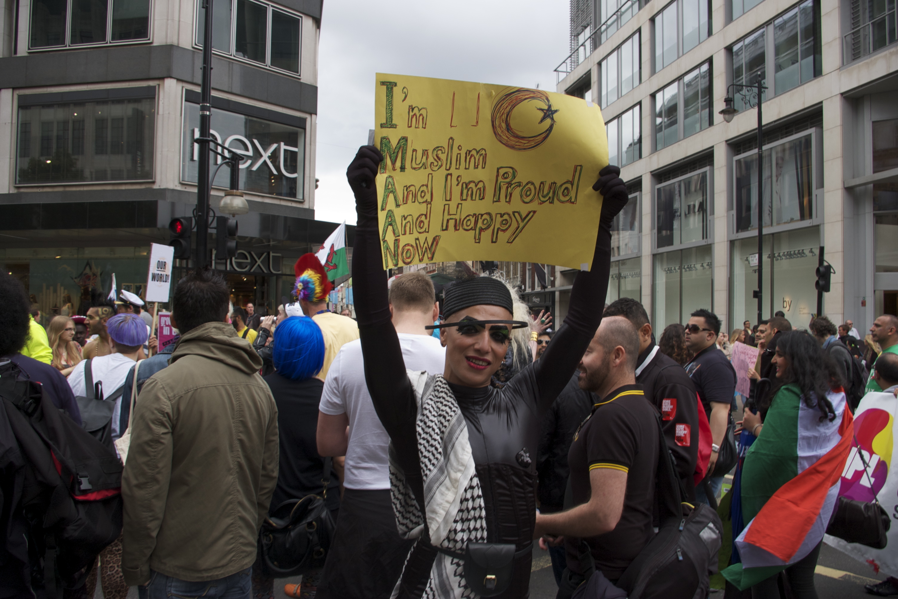 Marchers at Pride London/WorldPride 2012.